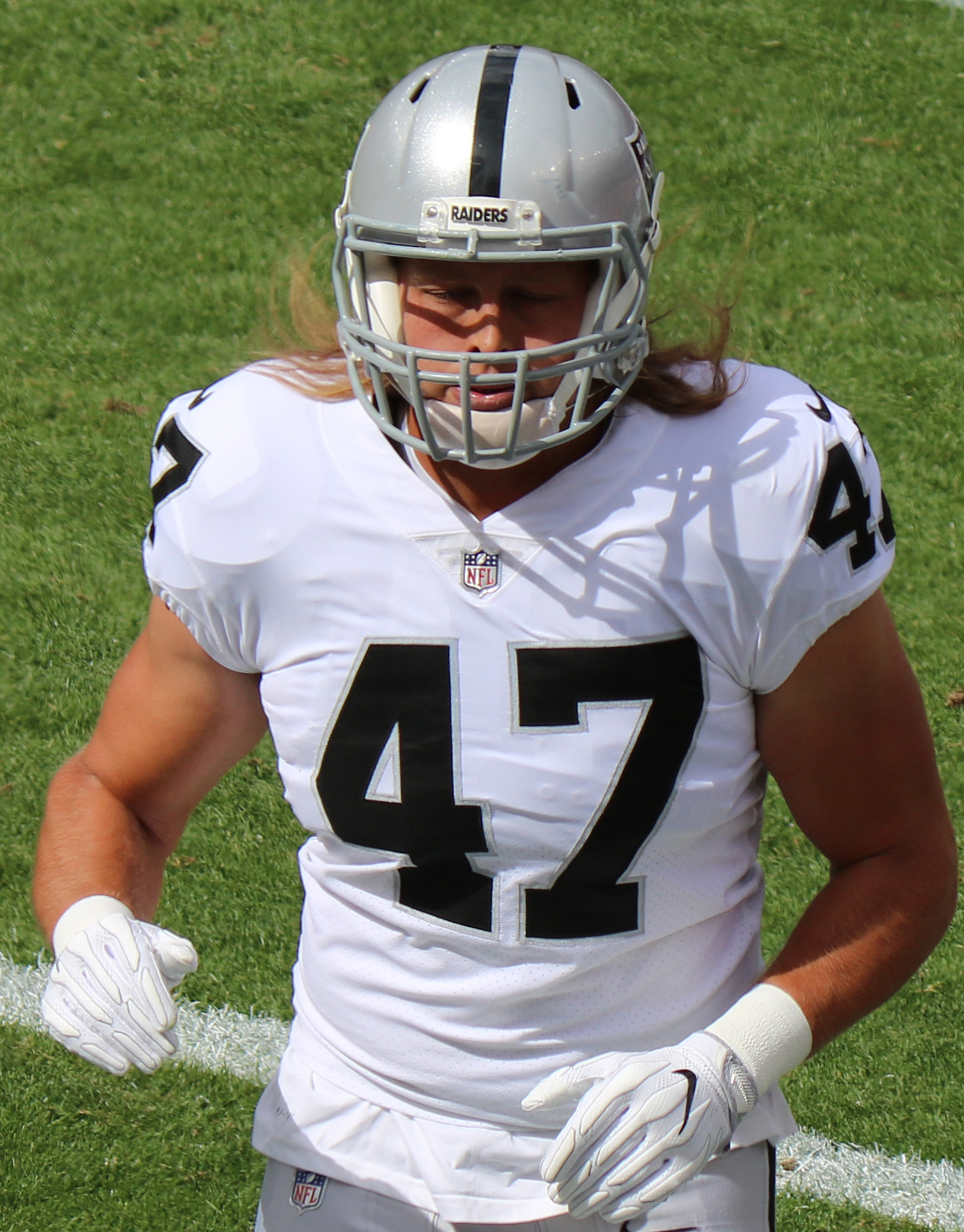 James Cowser, a player on the National Football League.